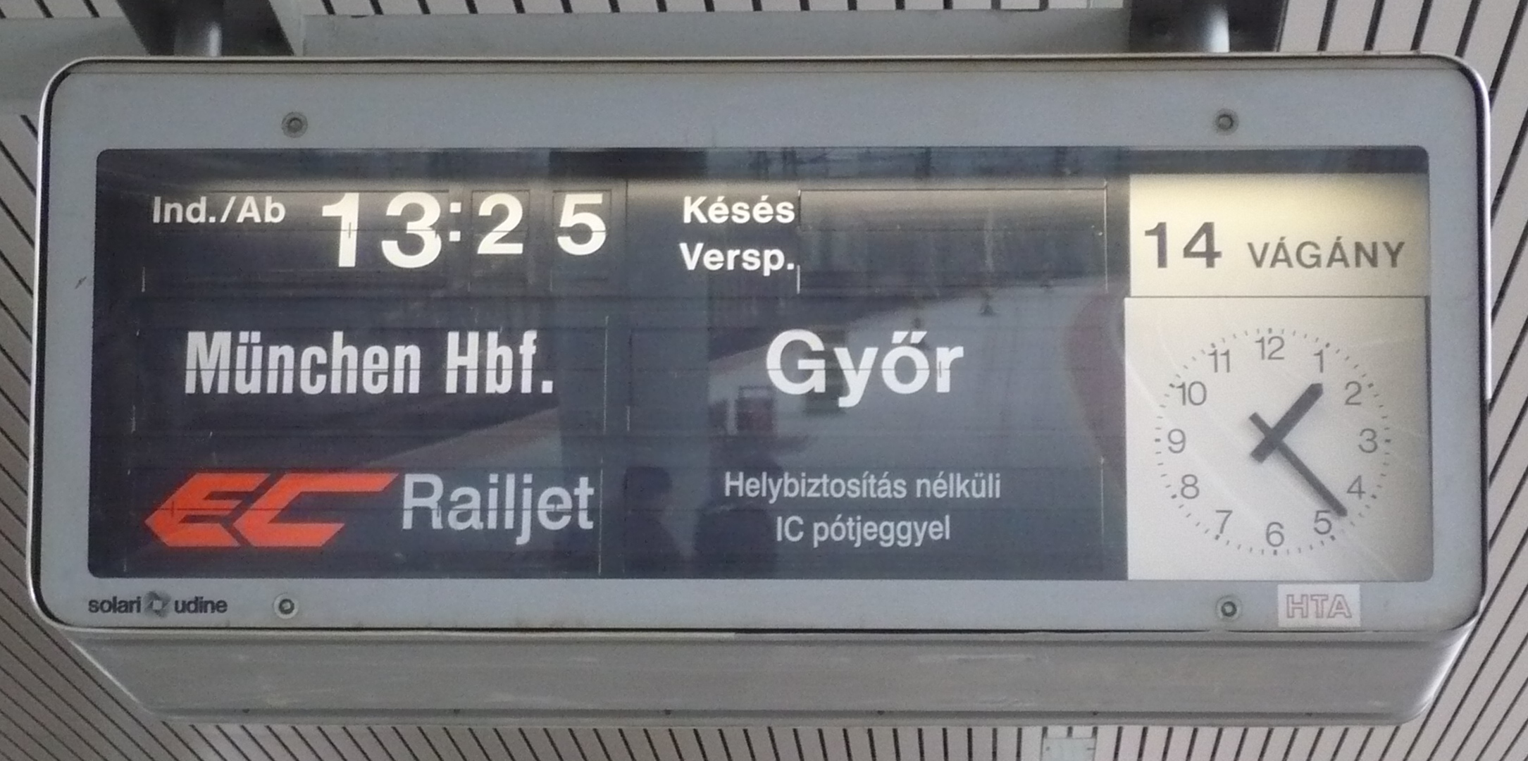 Plate in Kelenföld.